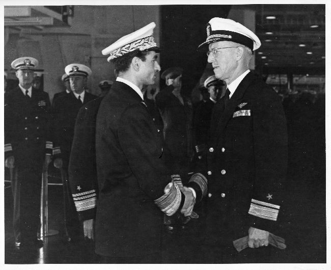 U.S. Carrier Tour, Commander-in-Chief, Iran Navy, North Island, on 3 December 1949 Shah Note that only Vice Admiral Bogan's arms are visible behind the Shah. The U.S. Navy Rear Admiral on the right is not identified. Repository: San Diego Air and Space Museum Archive